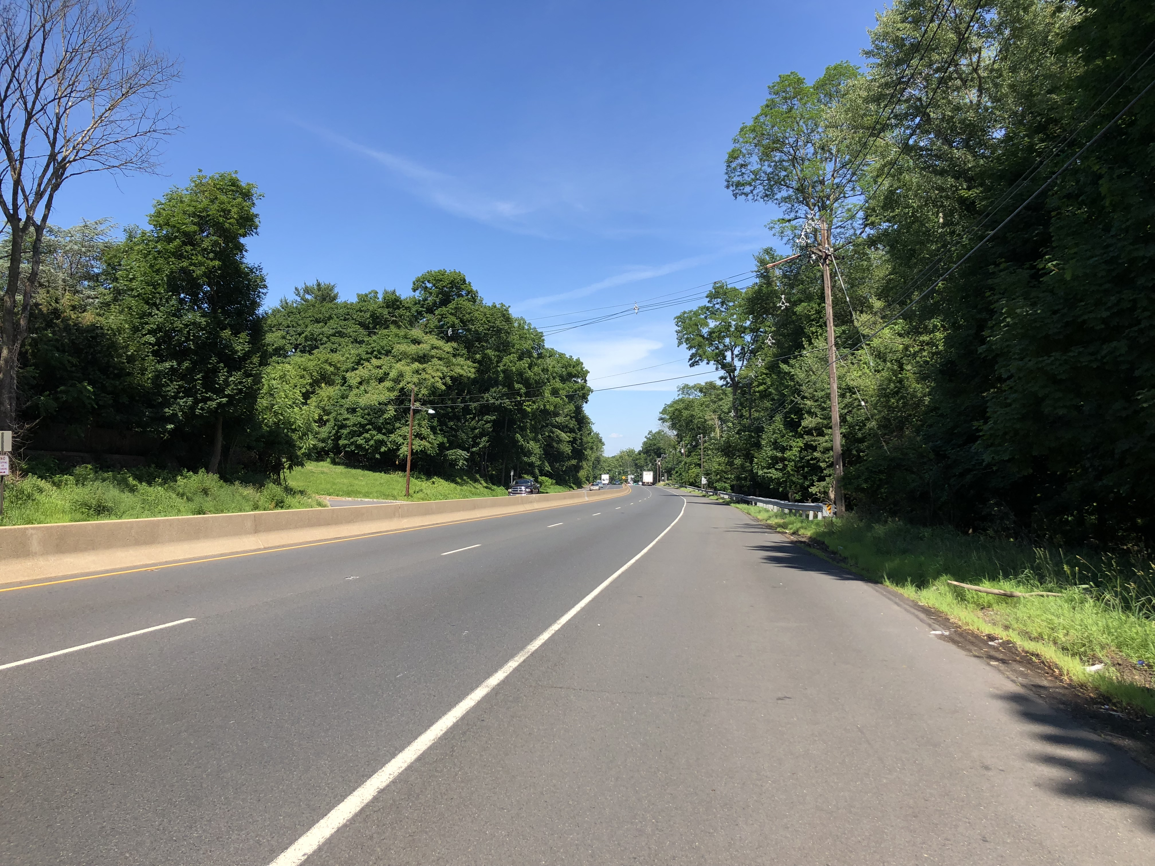 View east along U.S. Route 22 between Lawrence Avenue and Pembrook Road in Mountainside, Union County, New Jersey